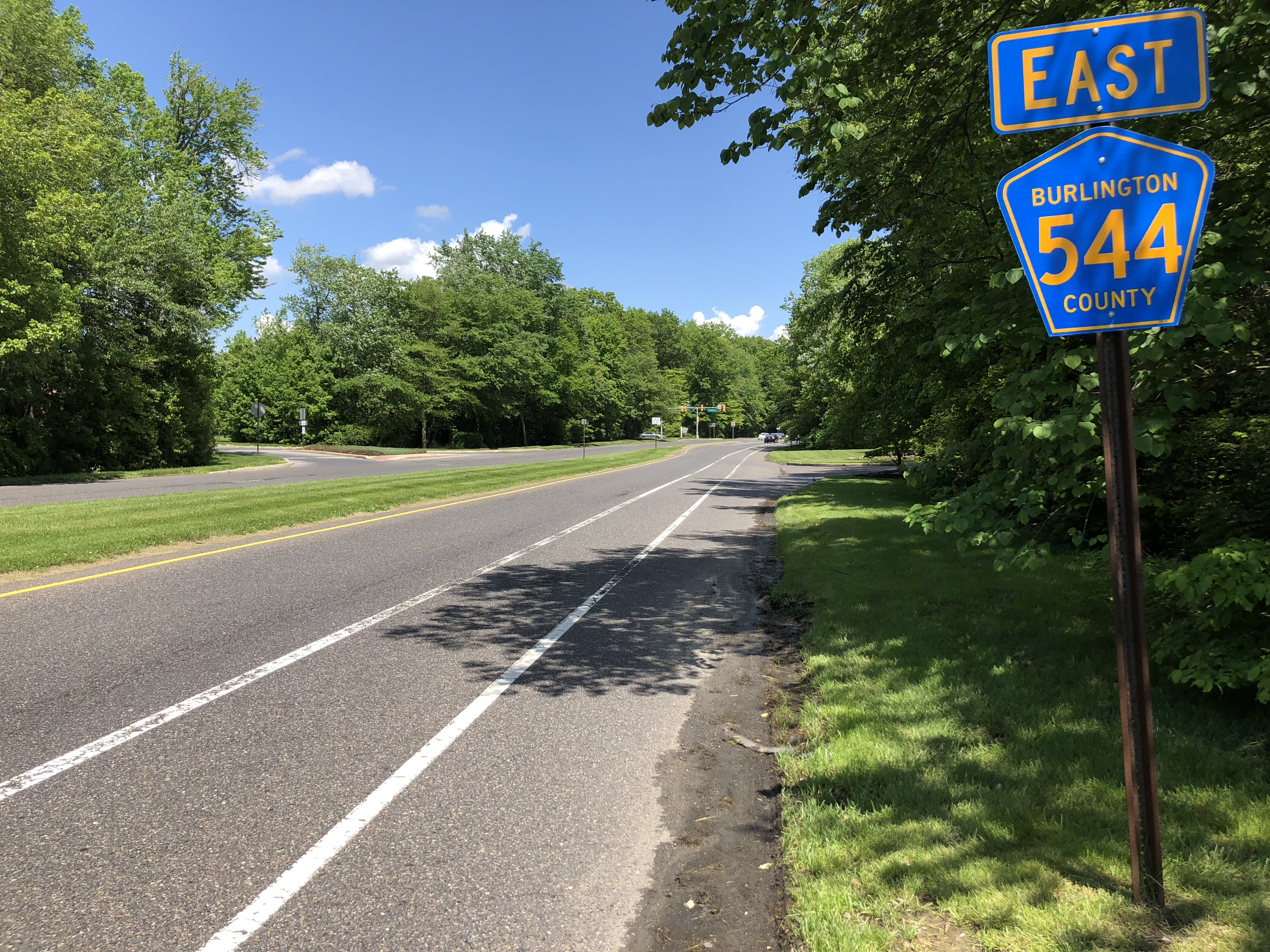 View east along Burlington County Route 544 (Marlton Parkway) at New Jersey State Route 73 in Evesham Township, Burlington County, New Jersey